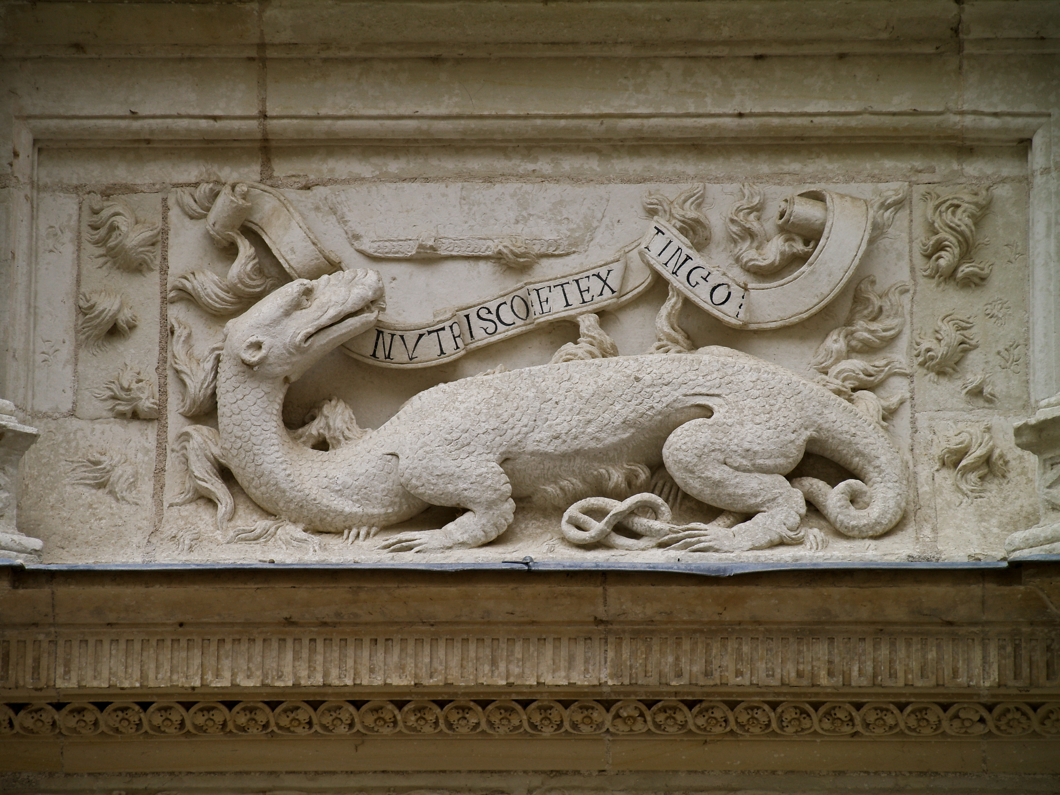 The salamander, badge of Francis I of France, with his motto: "Nutrisco et extinguo" ("I nourish and extinguish") - Azay-le-Rideau Castle - Loire Valley (Indre-et-Loire), France